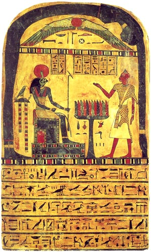 The Stele of Revealing. A funerary tablet by Ankh-af-na-khonsu, a 26th dynasty (apx. 725 BCE) Theban priest.